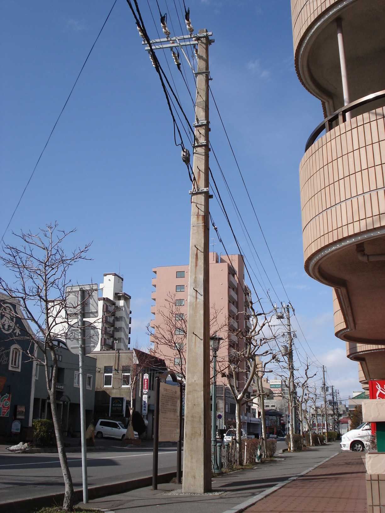 The square utility pole in Hakodate city, Hokkaido, Japan